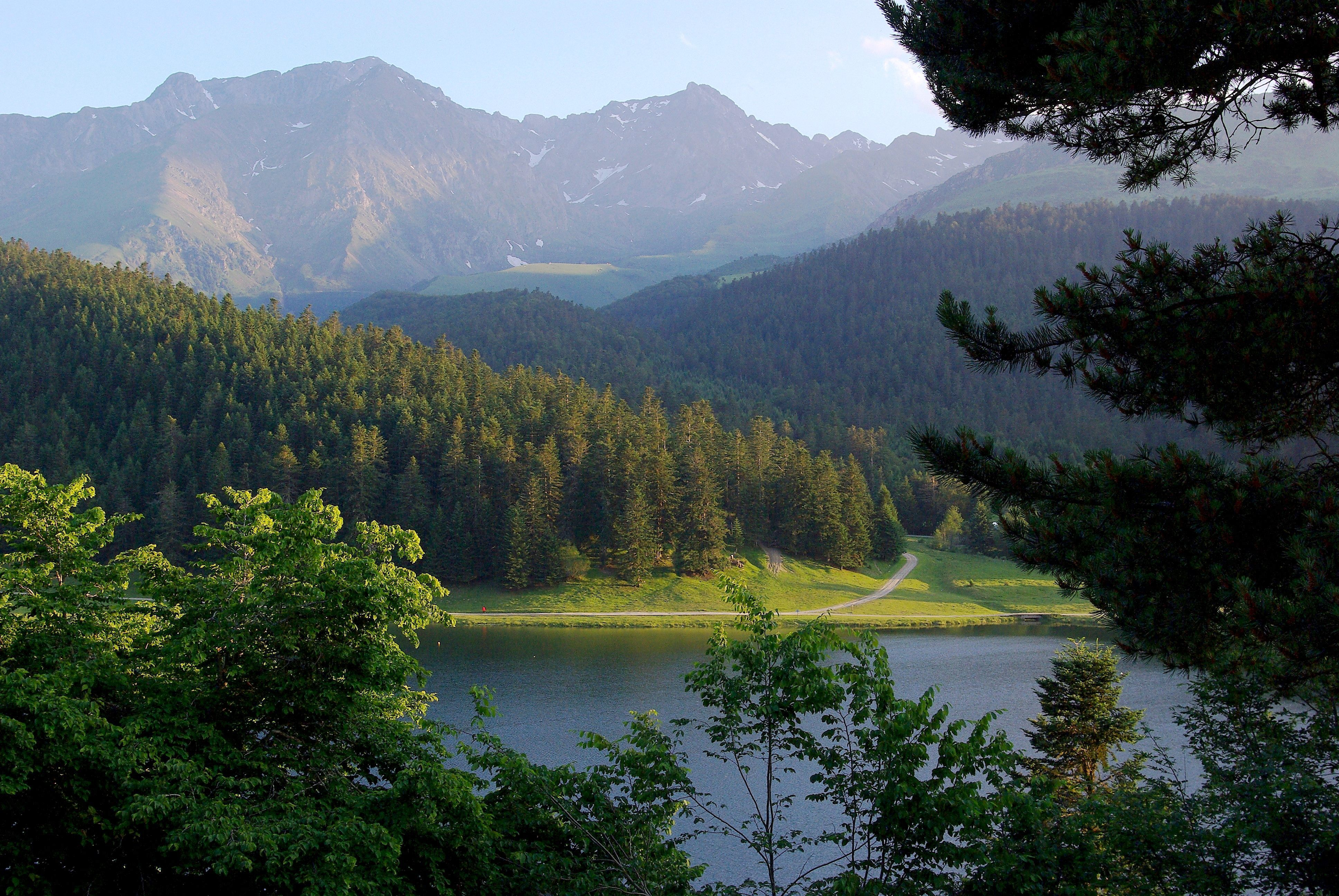 Lake of Payolle, from the road of Résidence l'Artigou. Hautes-Pyrénées, France.